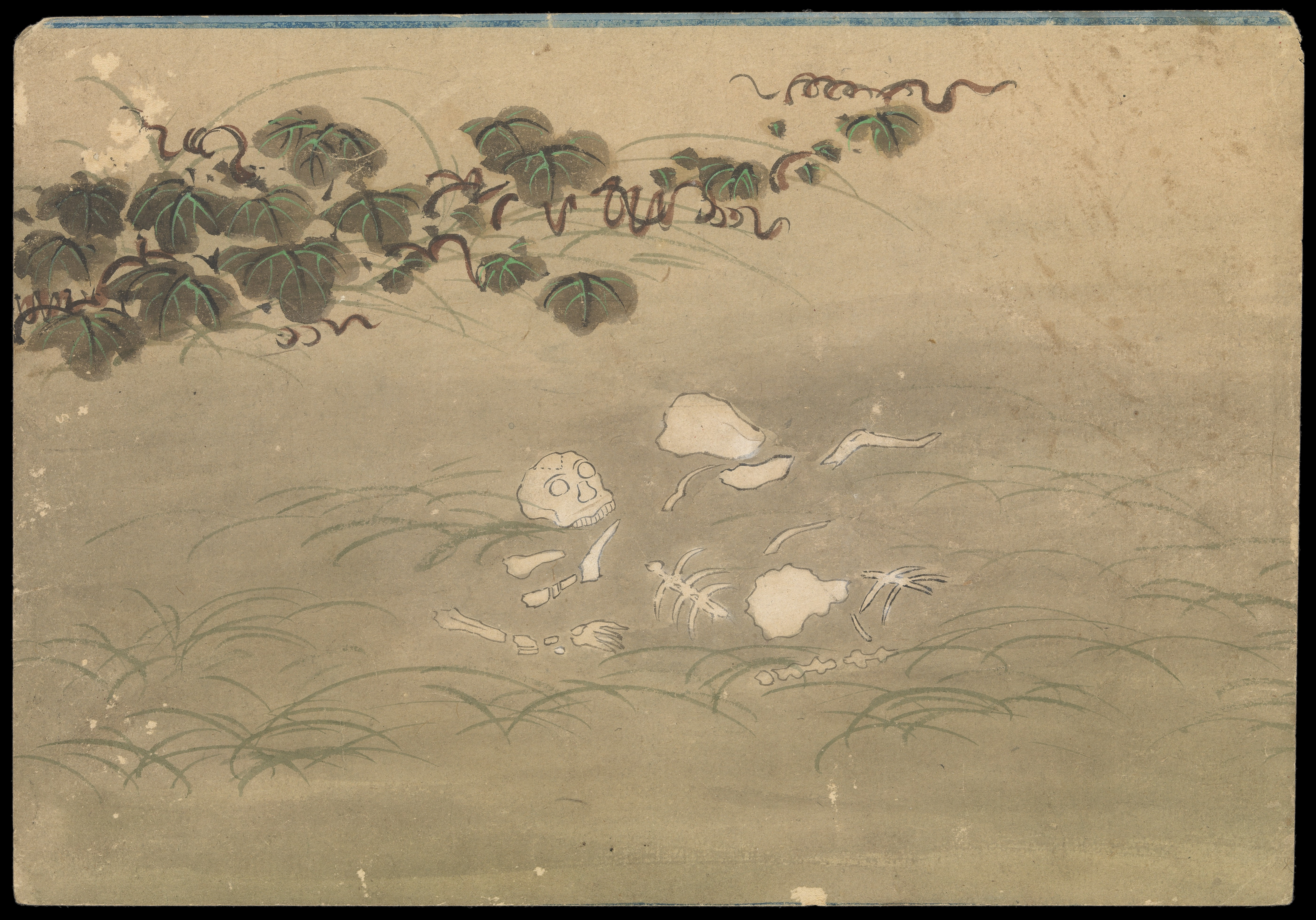 Kusozu: the death of a noble lady and the decay of her body. Eighth in a series of 9 watercolours. Only a few fragments of bone, including the skull and fragments of rib. hand and vertebrae remain visible. Iconographic Collections